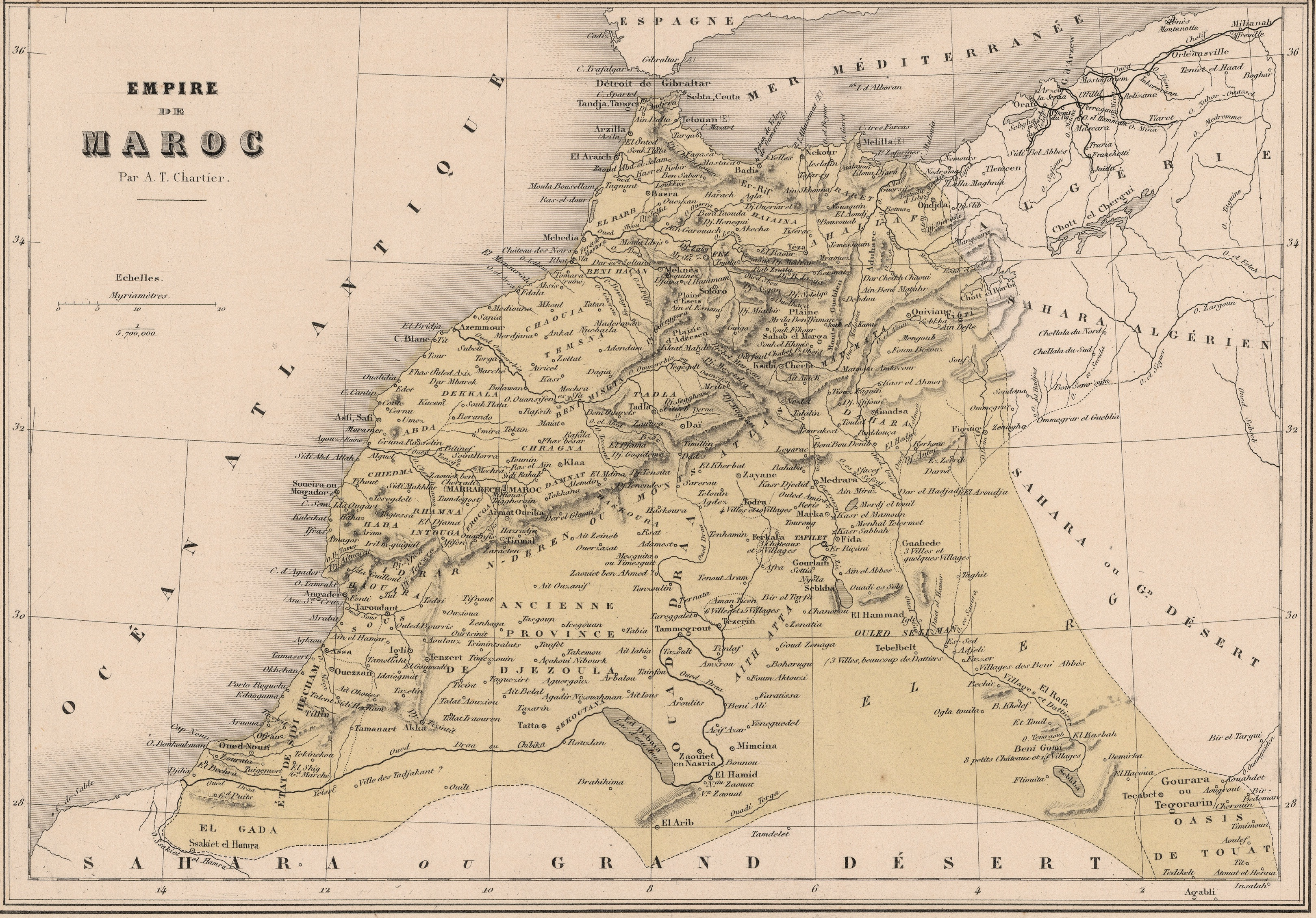 Empire of Morocco